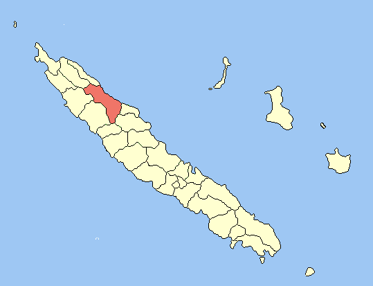 Created map myself.